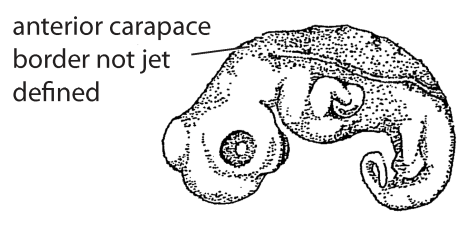 Standard Event System character depiction